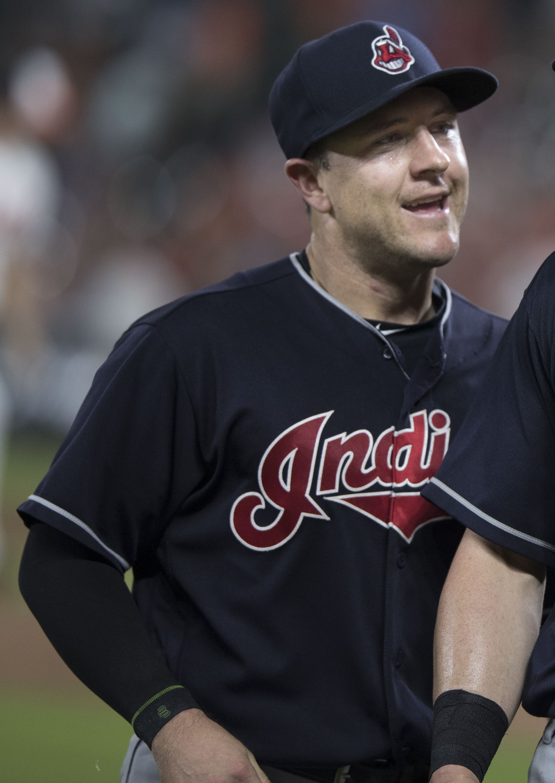 Indians at Orioles 6/22/17